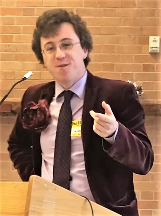 Speech: Nathan J. Robinson on Democratic Socialist Organizing at the 2020 Austin DSA Convention Nathan J. Robinson is the founder and editor of Current Affairs, a leftist magazine that is part of the growing socialist ecosystem of institutions. In this speech, he discusses the role of socialists today—how to organize and transfer power from the ruling class to the working class.